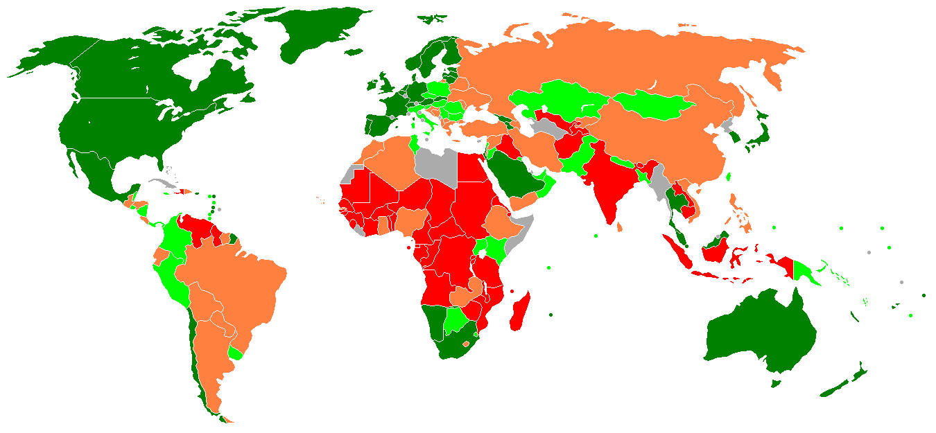 Data source: Ease of Doing Business Index by the World Bank. Map based on Image:BlankMap-World-v5.png.